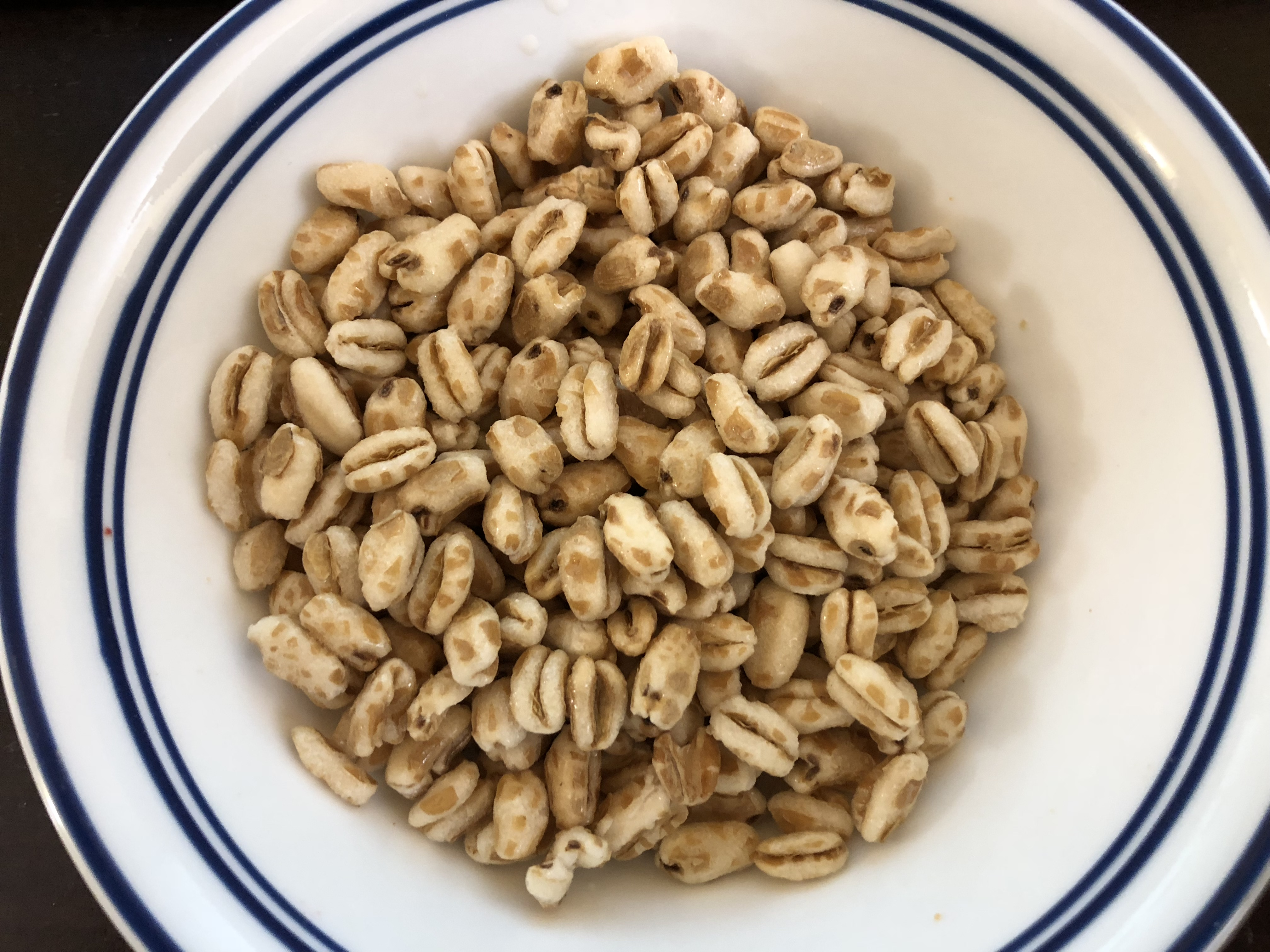 A bowl of Kellogg's Honey Smacks in the Franklin Farm section of Oak Hill, Fairfax County, Virginia